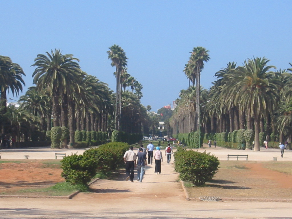 The parc de la Ligue Arabe in Casablanca, Morocco. Source: Jaakko Sakari Reinikainen (ulayiti)